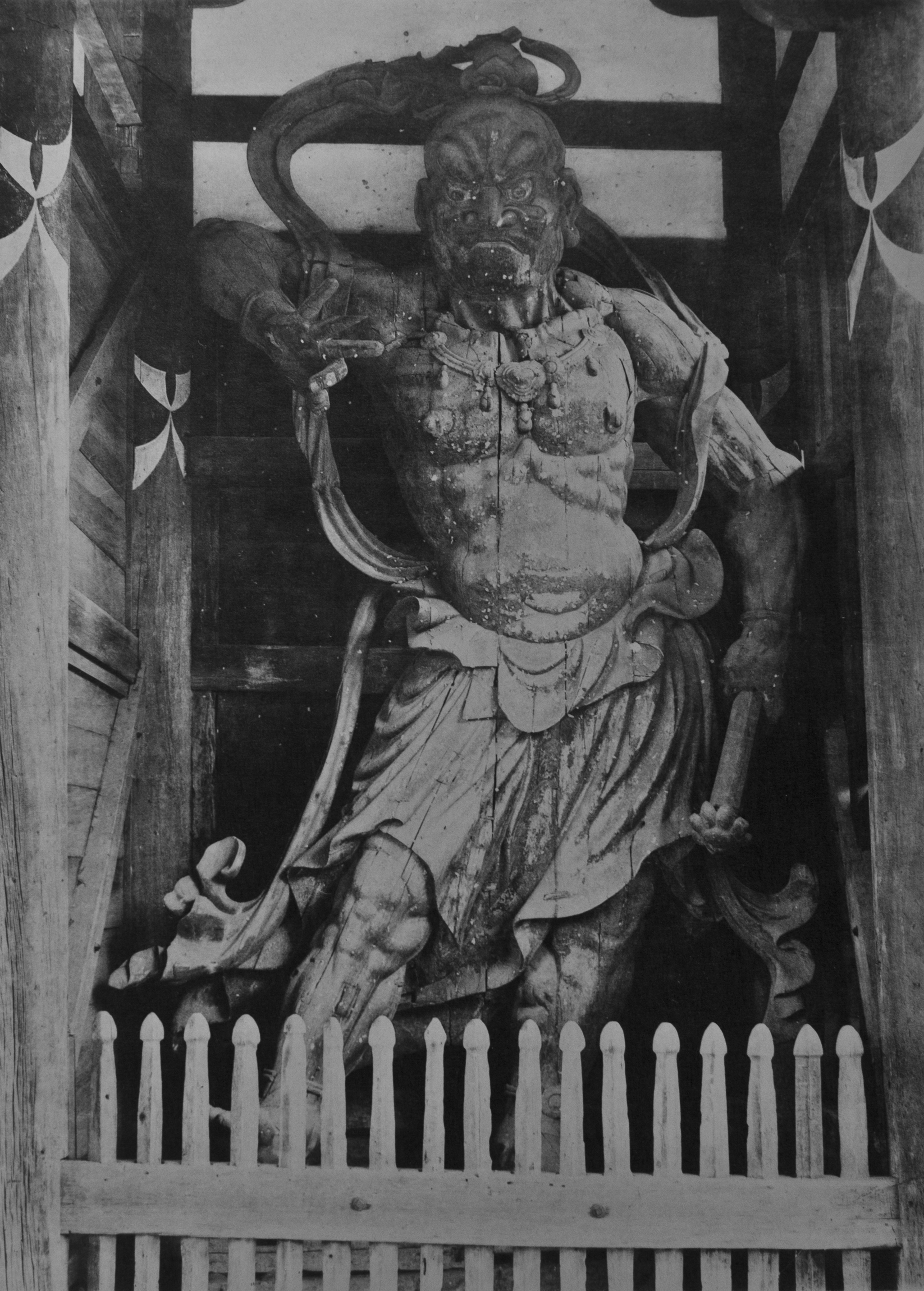 Todaiji, Nara, Japan